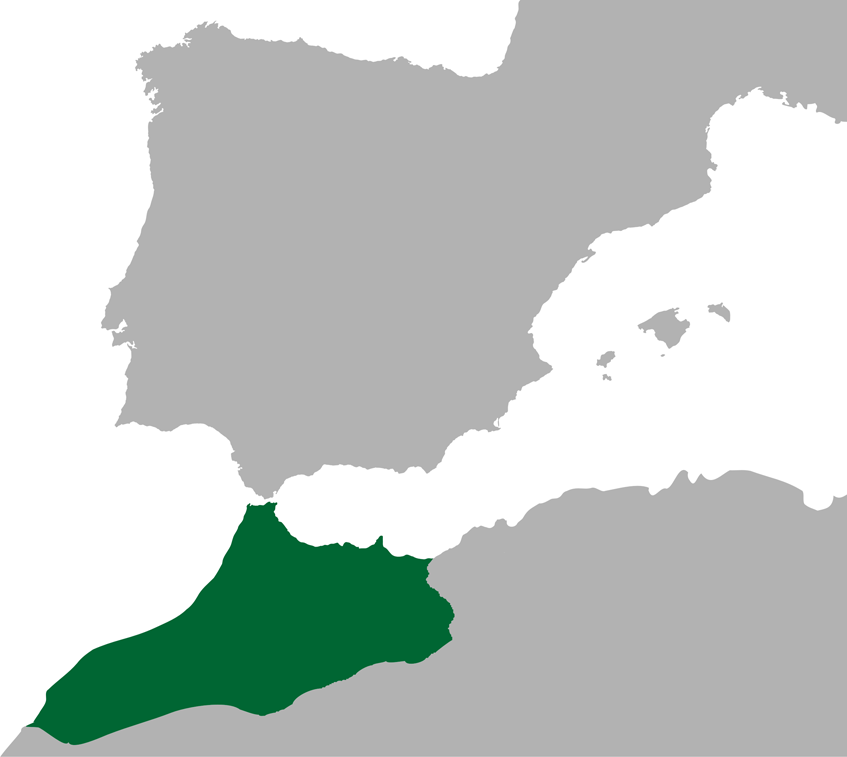 This map shows the Mauritania Tingetana´s territory in the Roman Empire.